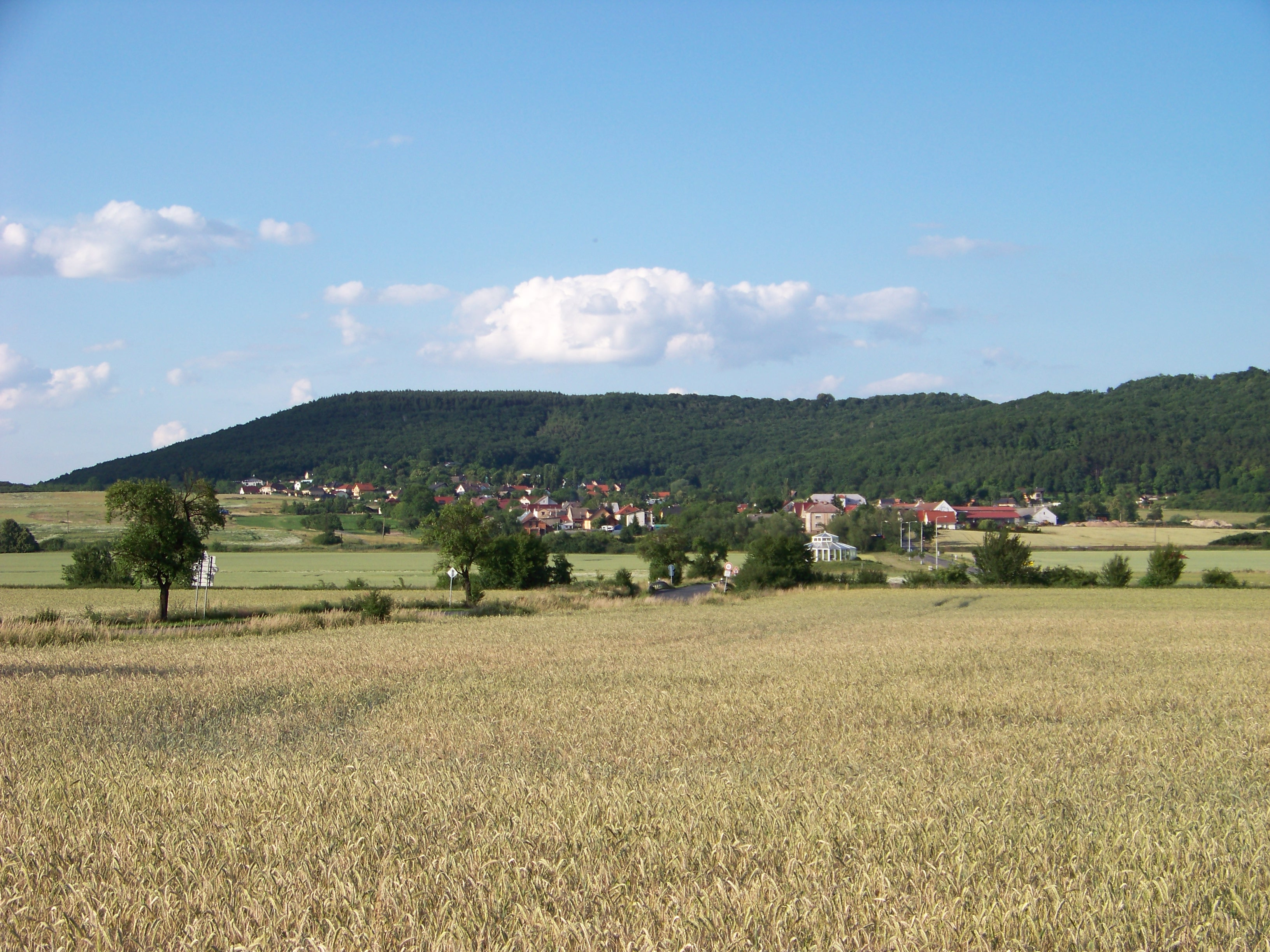 Nepřevázka, Mladá Boleslav District, Central Bohemian Region, the Czech Republic. - OpenStreetMap(Info)